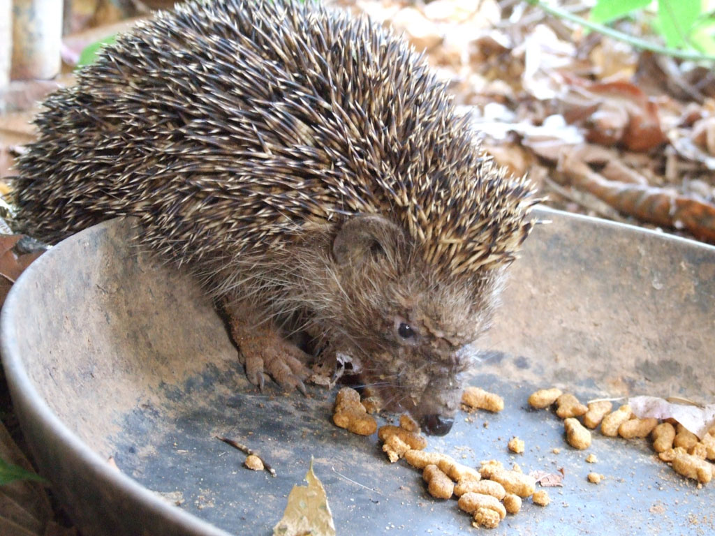 Erinaceus concolor, Southern White-breasted Hedgehog